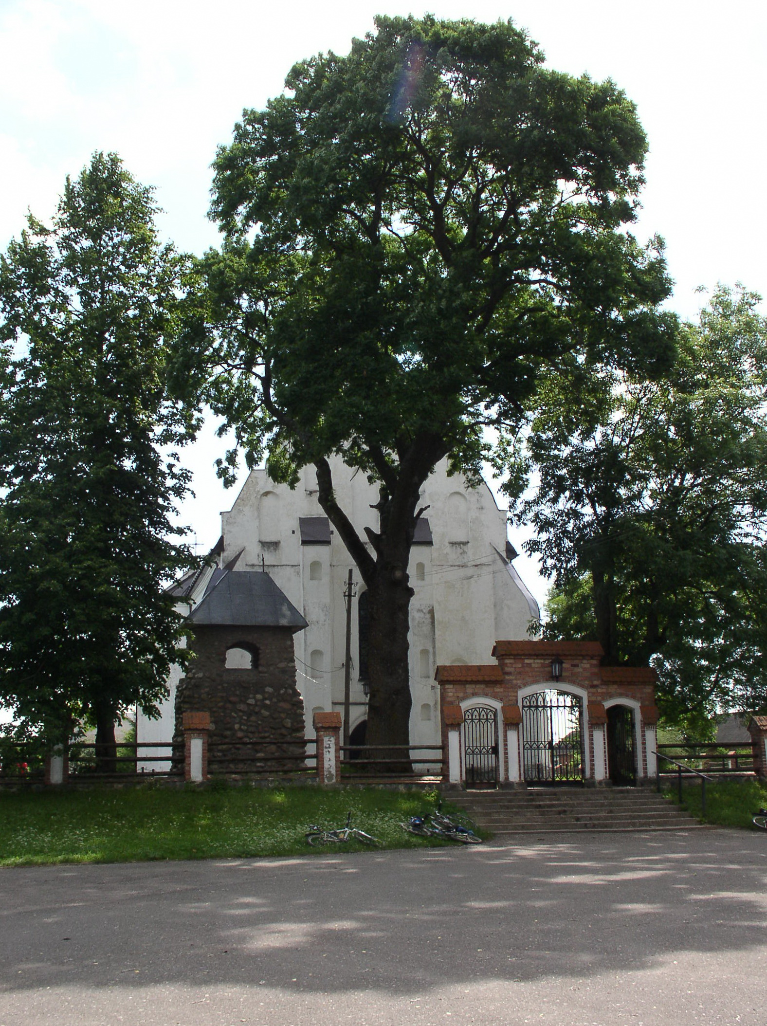 Church of Holy Trinity. Ishkaldz, Belarus.